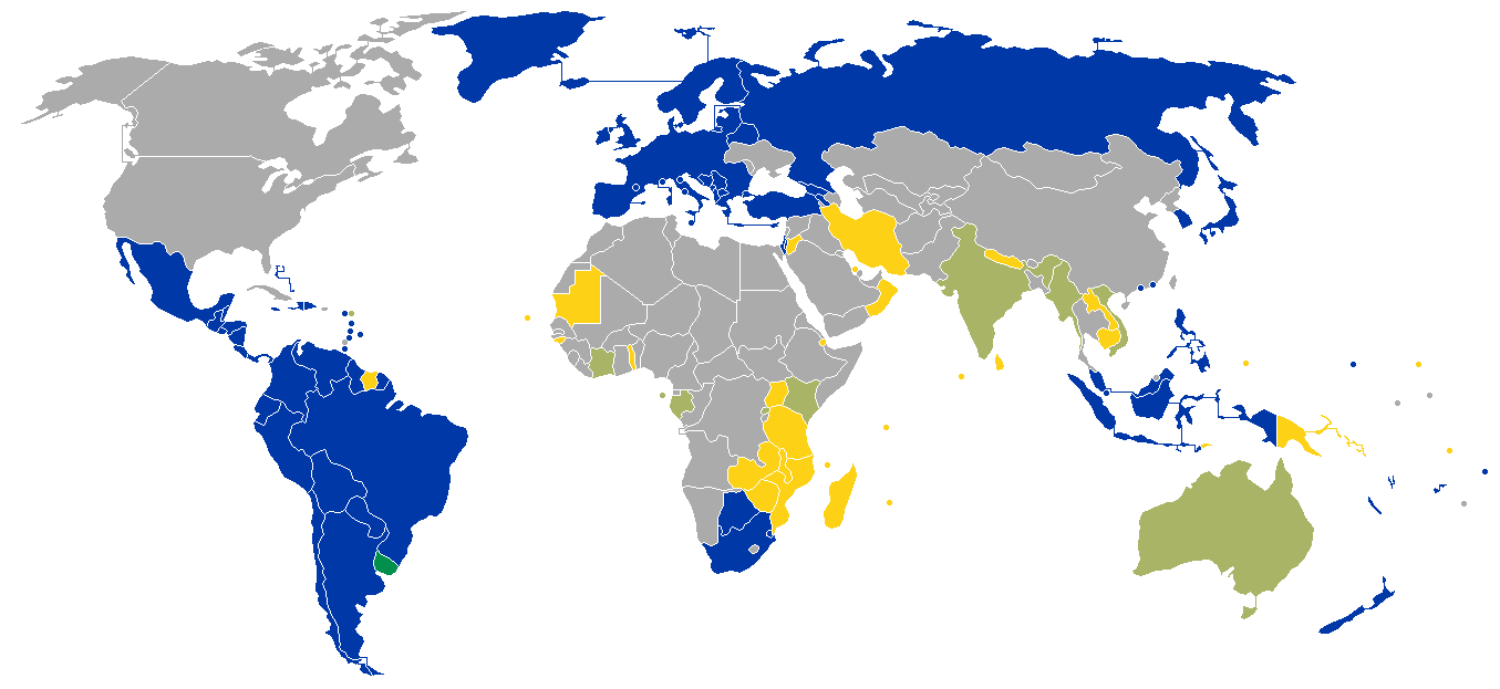 map of Uruguayan visa requirements